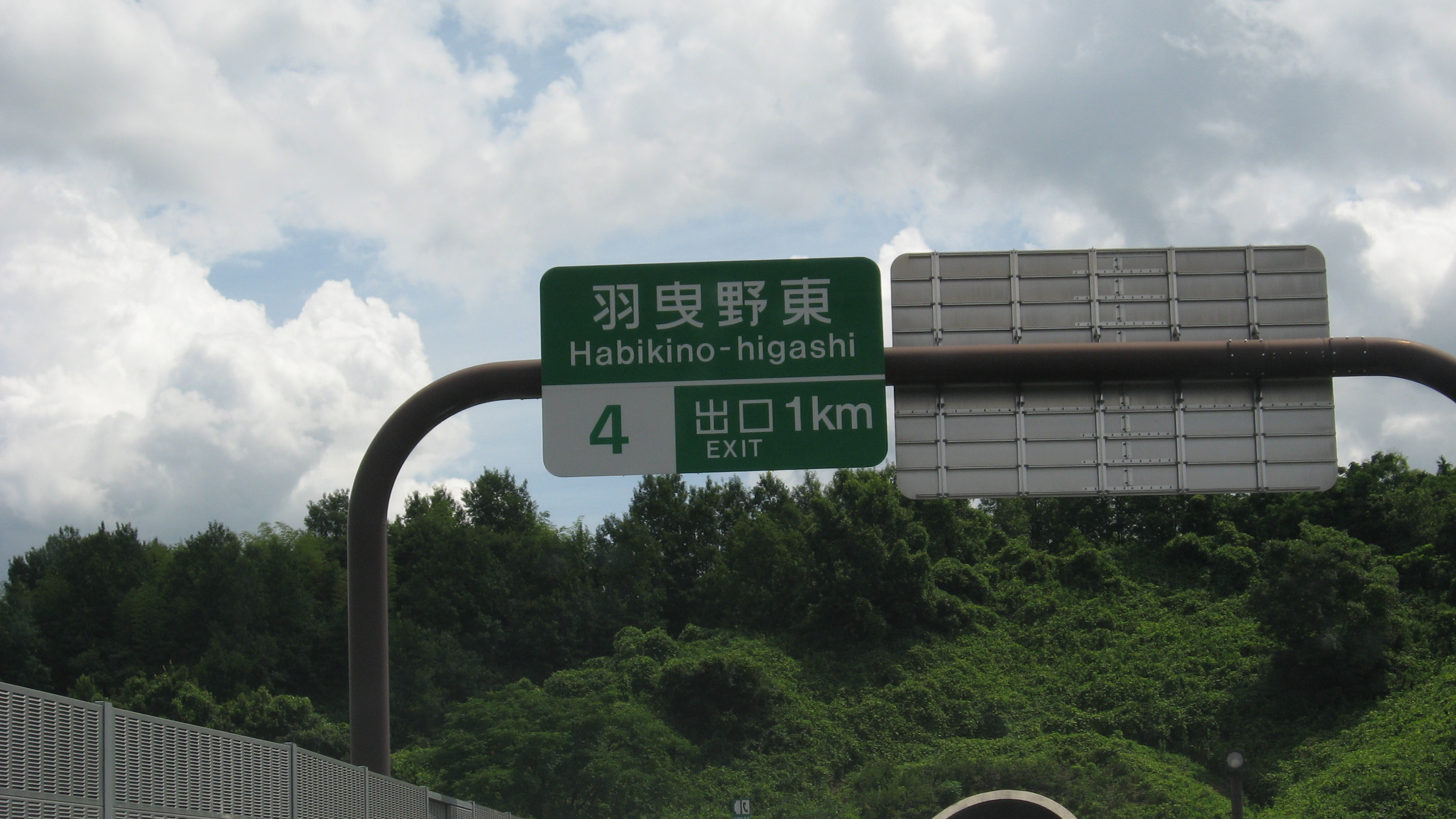 Habikino-higashi IC